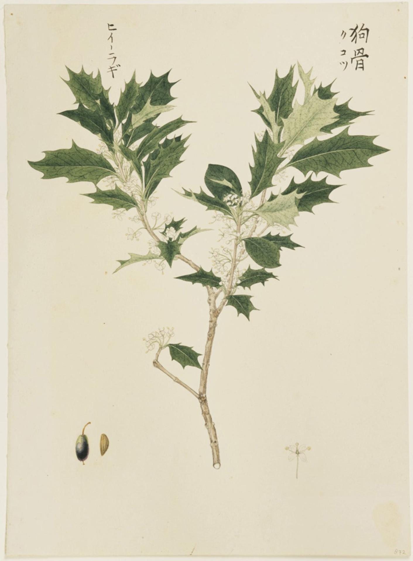 Osmanthus heterophyllus